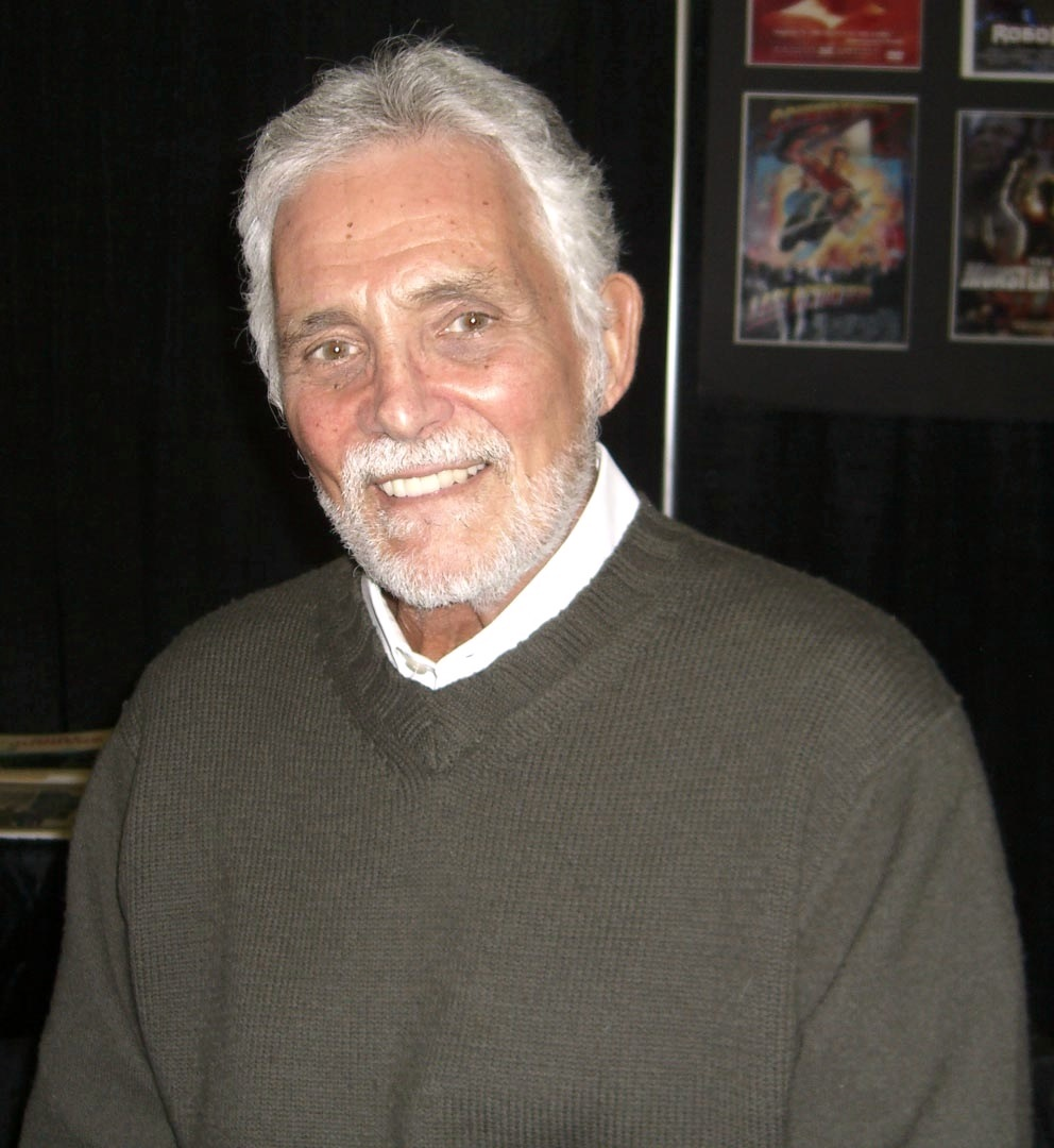 Actor David Hedison at the Big Apple Convention in Manhattan. Photographed by Luigi Novi. This photo may only be used if the photographer is properly credited. (See Licensing information below.)